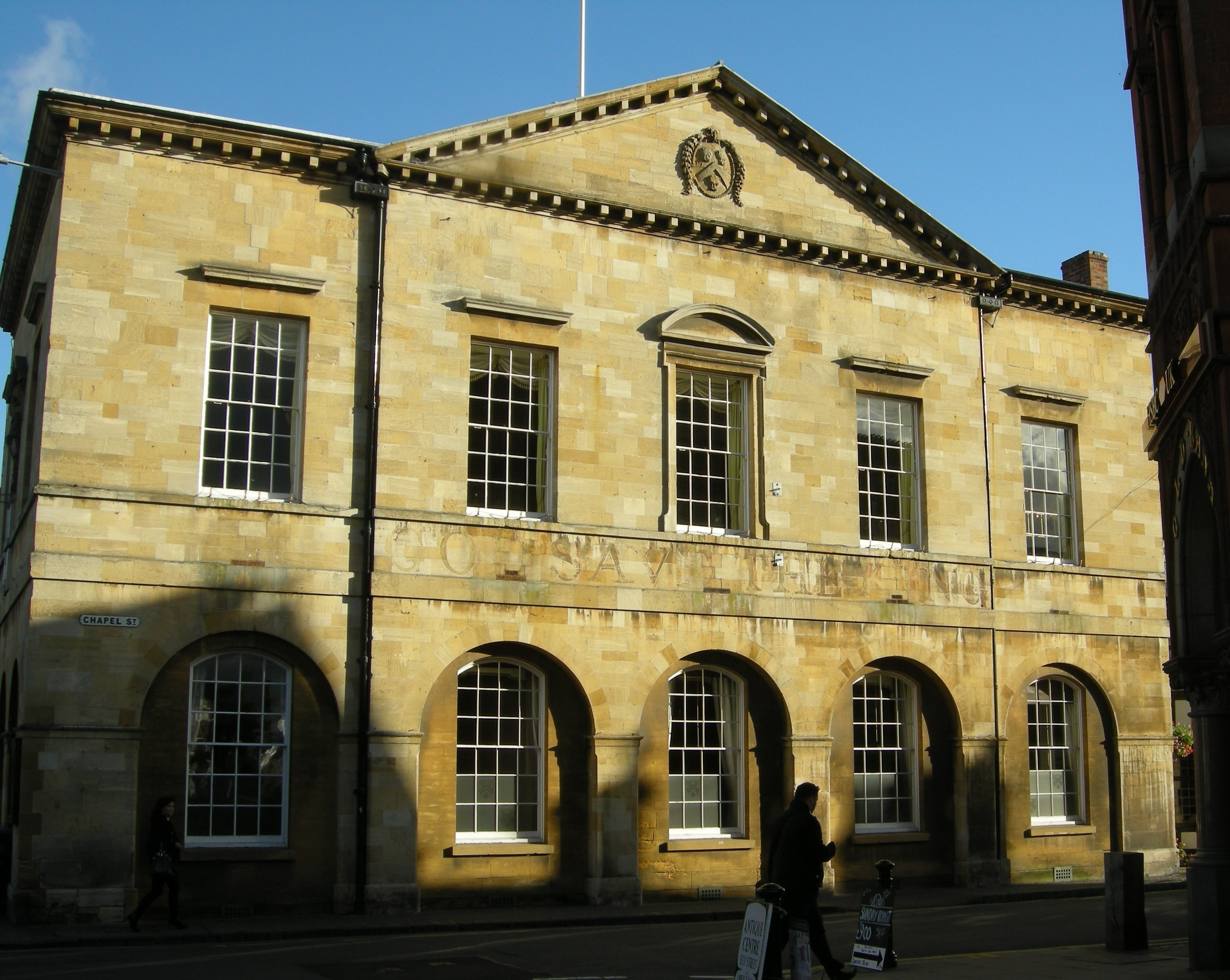 Town Hall, Stratford-upon-Avon, Warwickshire: Chapel Street front. Erected 1767. Visible is the borough coat of arms and date 1767 in relief; and painted slogan, "GOD SAVE THE KING".